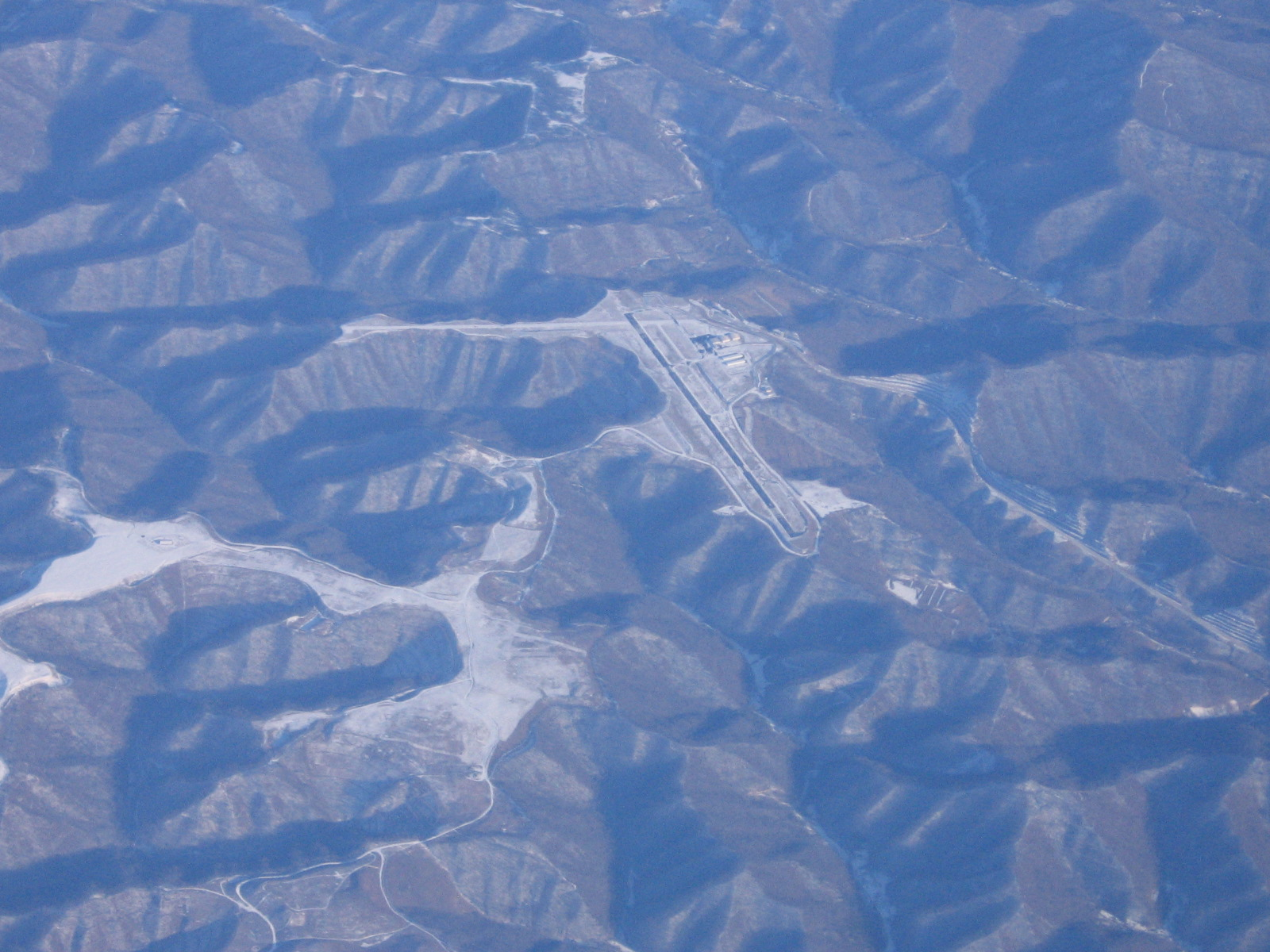 Pike County-Hatcher Airport in the snow from DL1730 PIT-ATL